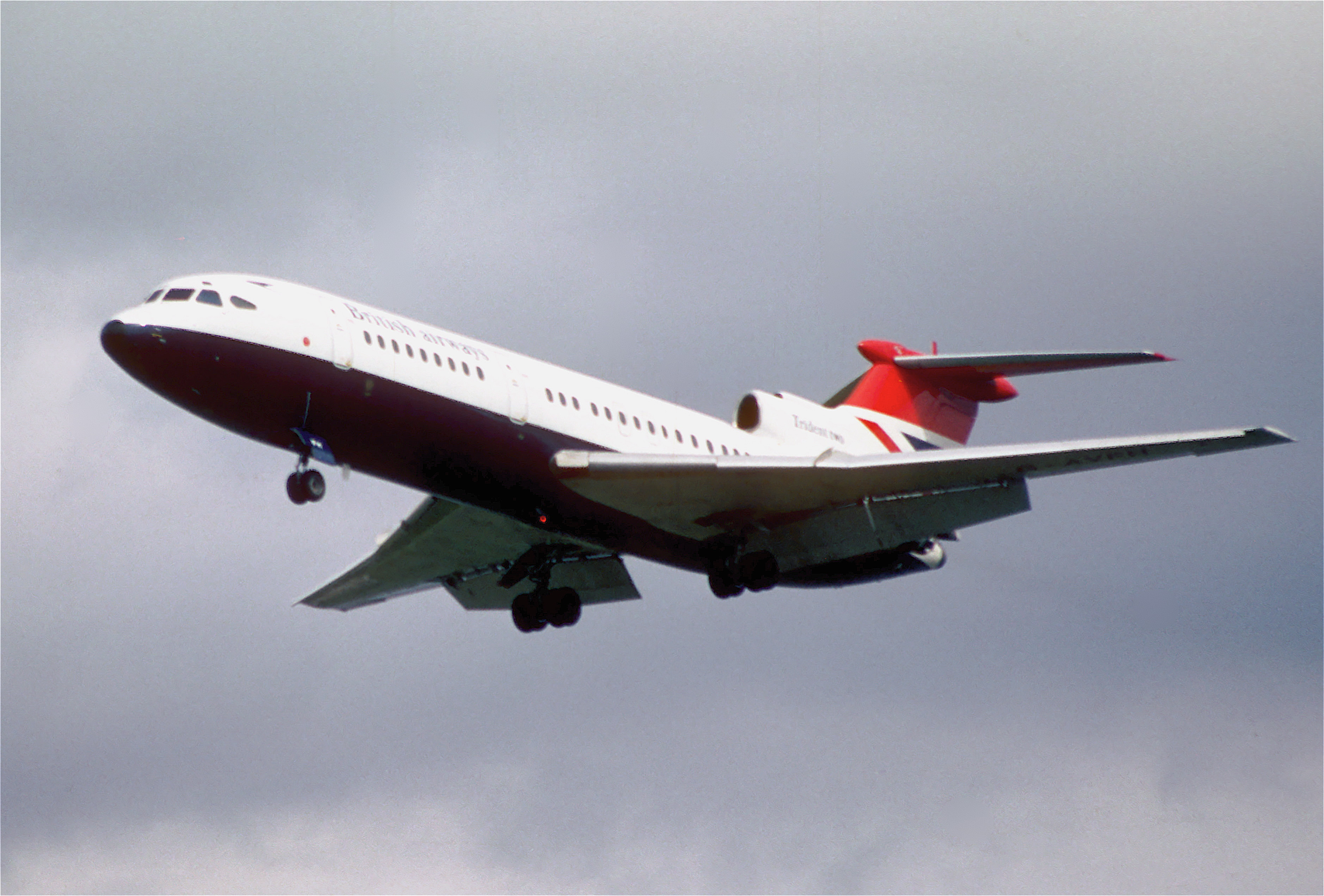 British Airways Hawker Siddeley HS121 2E Trident; G-AFVH approaching London Heathrow Airport.